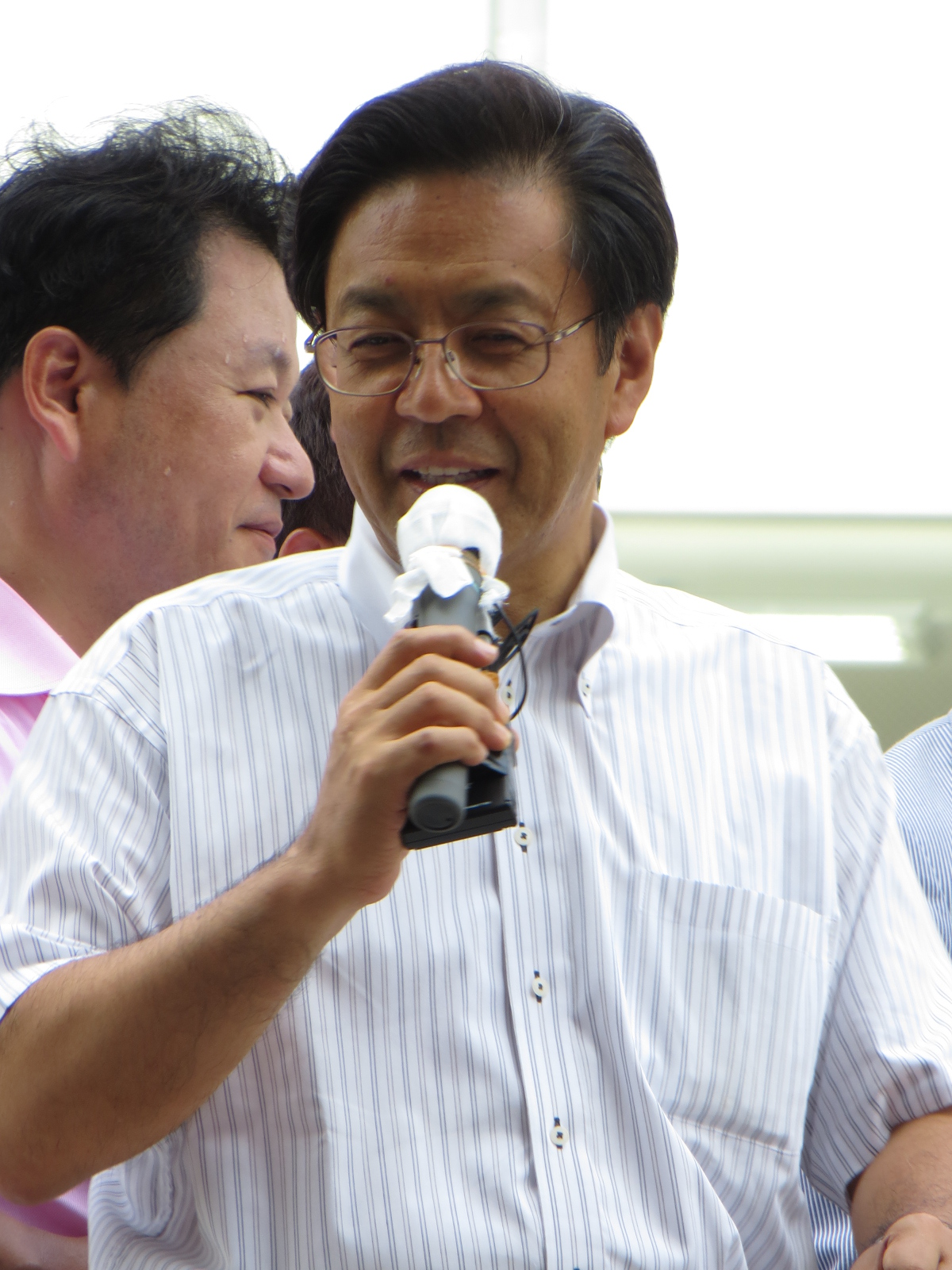 Shunichi Mizuoka (Member of the House of Councillors).